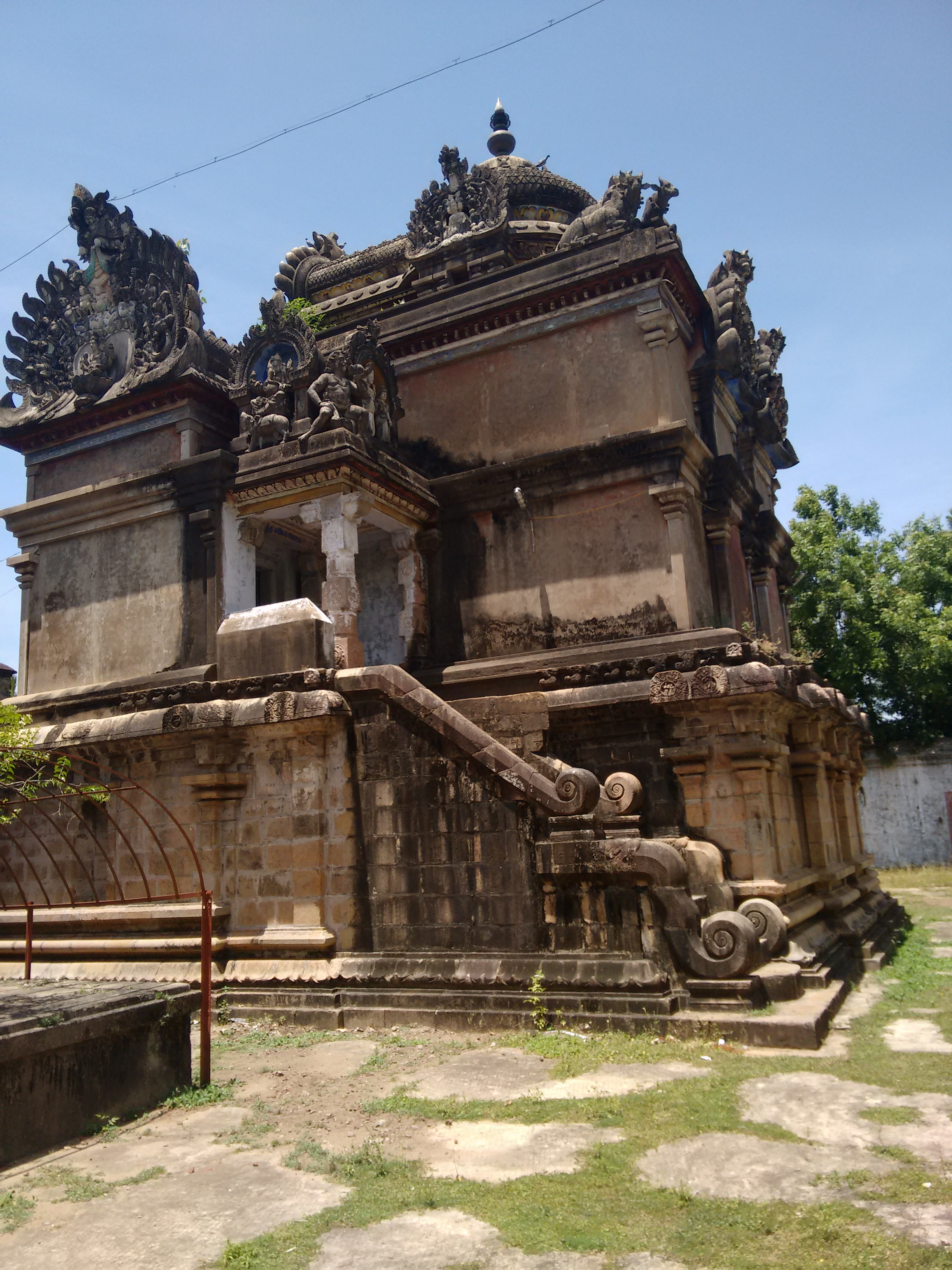 Karuppariyalur Kutramporuttanathar temple கருப்பறியலூர் குற்றம்பொறுத்தநாதர் கோயில்